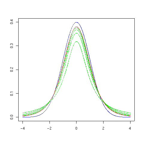 plot of t-distribution, 5 df